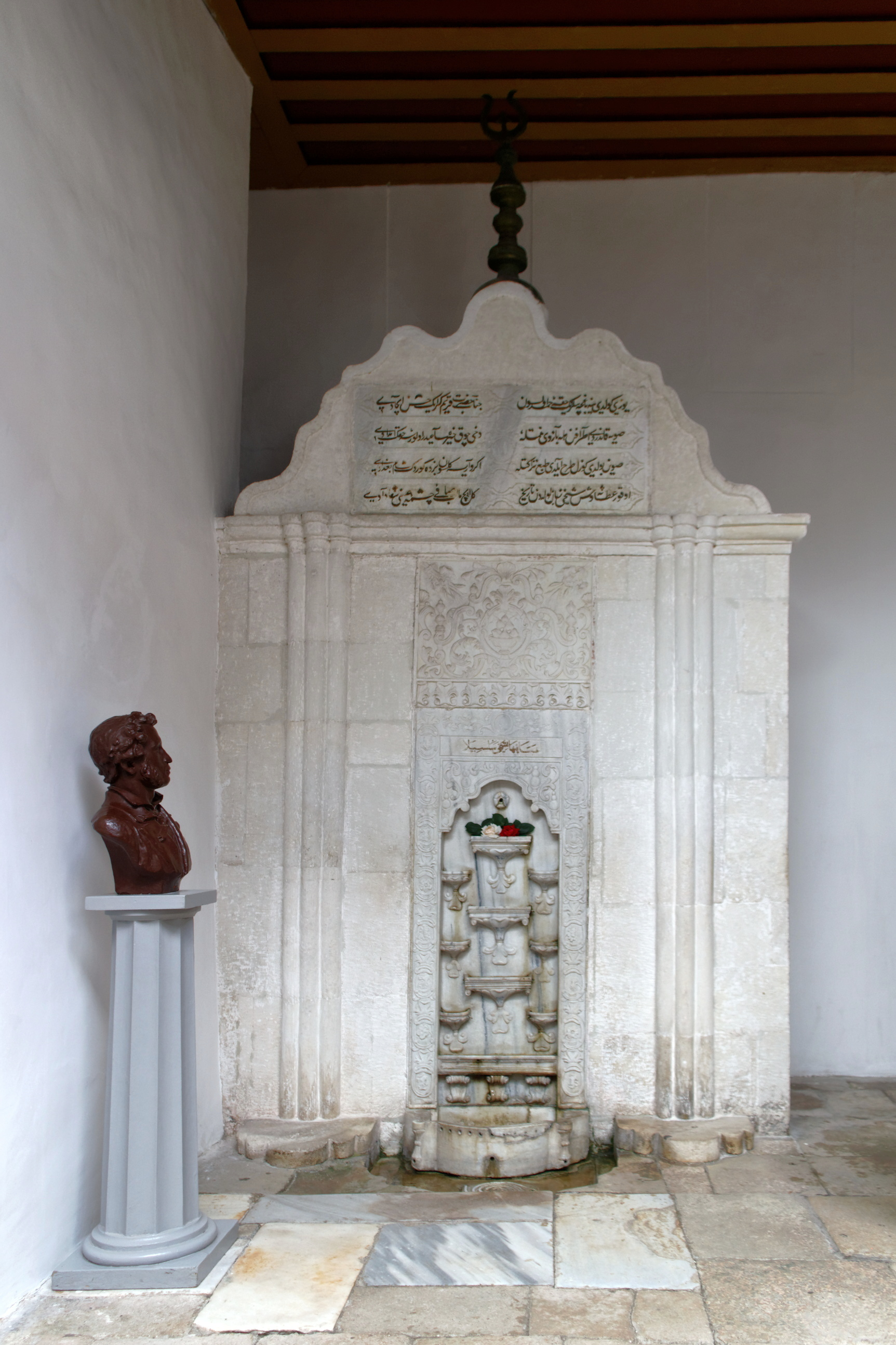 Bakhchysarai. The Khan's Palace. Fountain of Tears